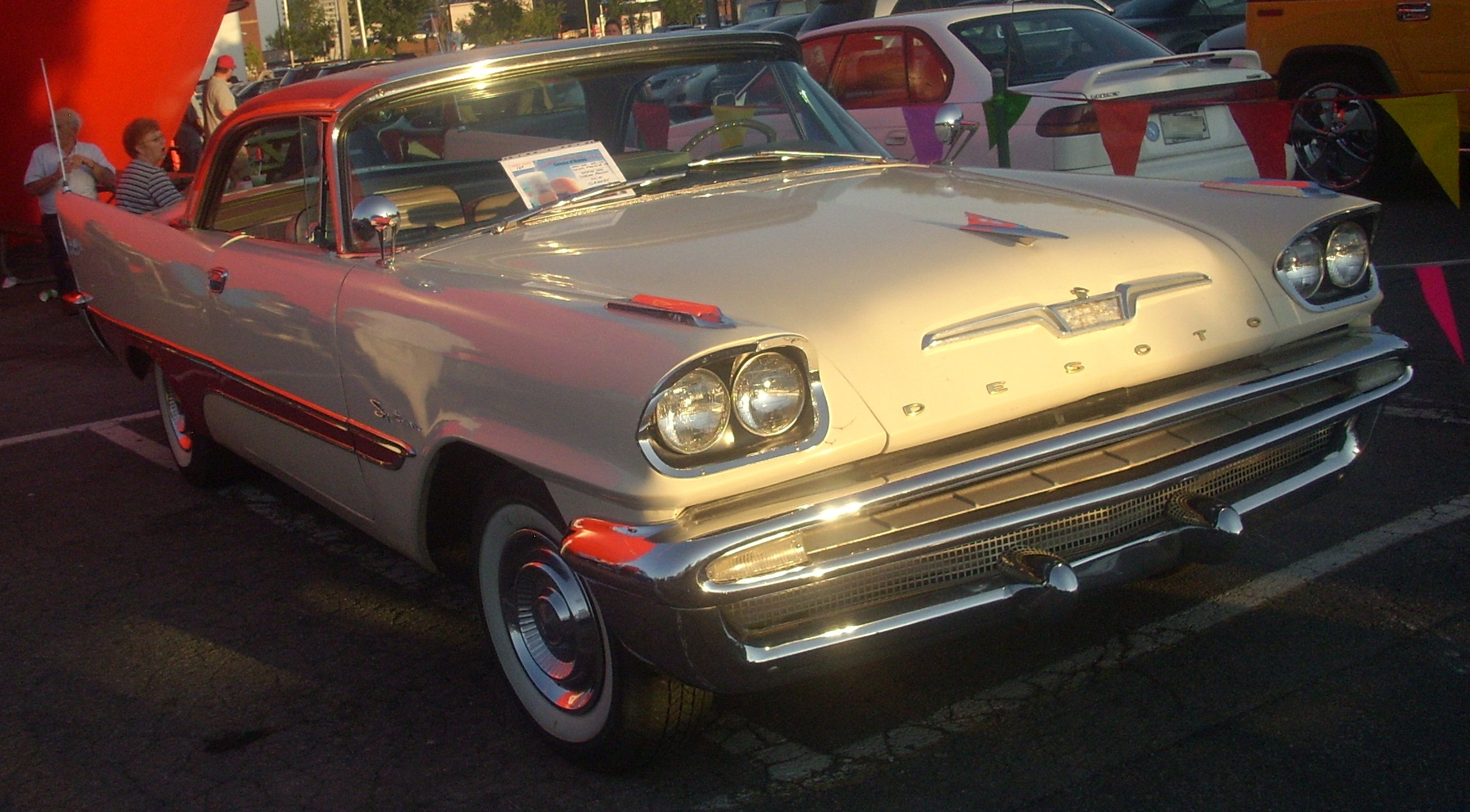 1957 DeSoto Fireflite 2 Door Sportsman photographed in Montreal, Quebec, Canada at Gibeau Orange Julep.